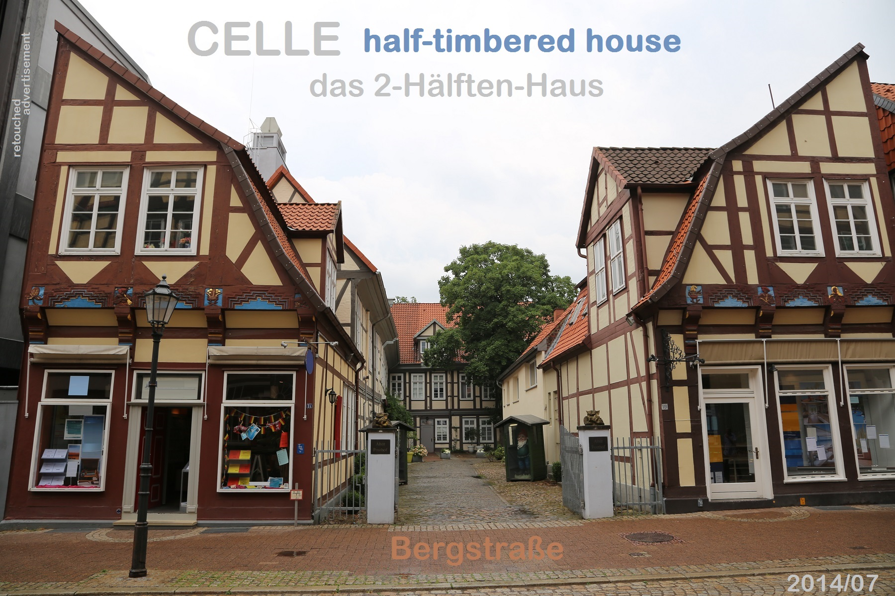 Celle, Bergstr. 1A and 1B (street named Bergstraße), half-timbered house: in very special rebuilding with wrong replaced halves and therefore liked by tourists